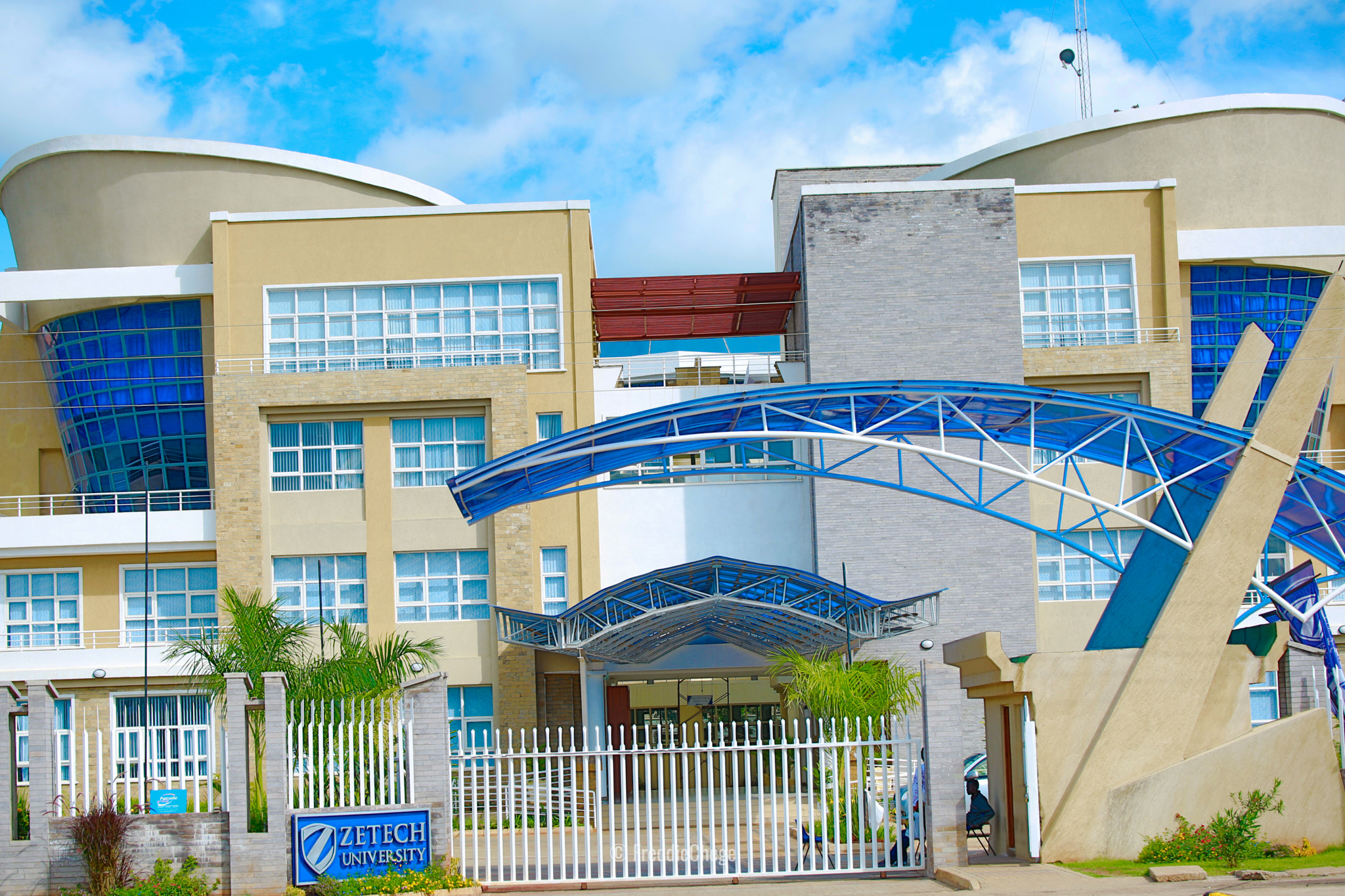 500px provided description: Establishment shot of Zeetech University-Ruiru [#sky ,#blue ,#architecture ,#building ,#university]